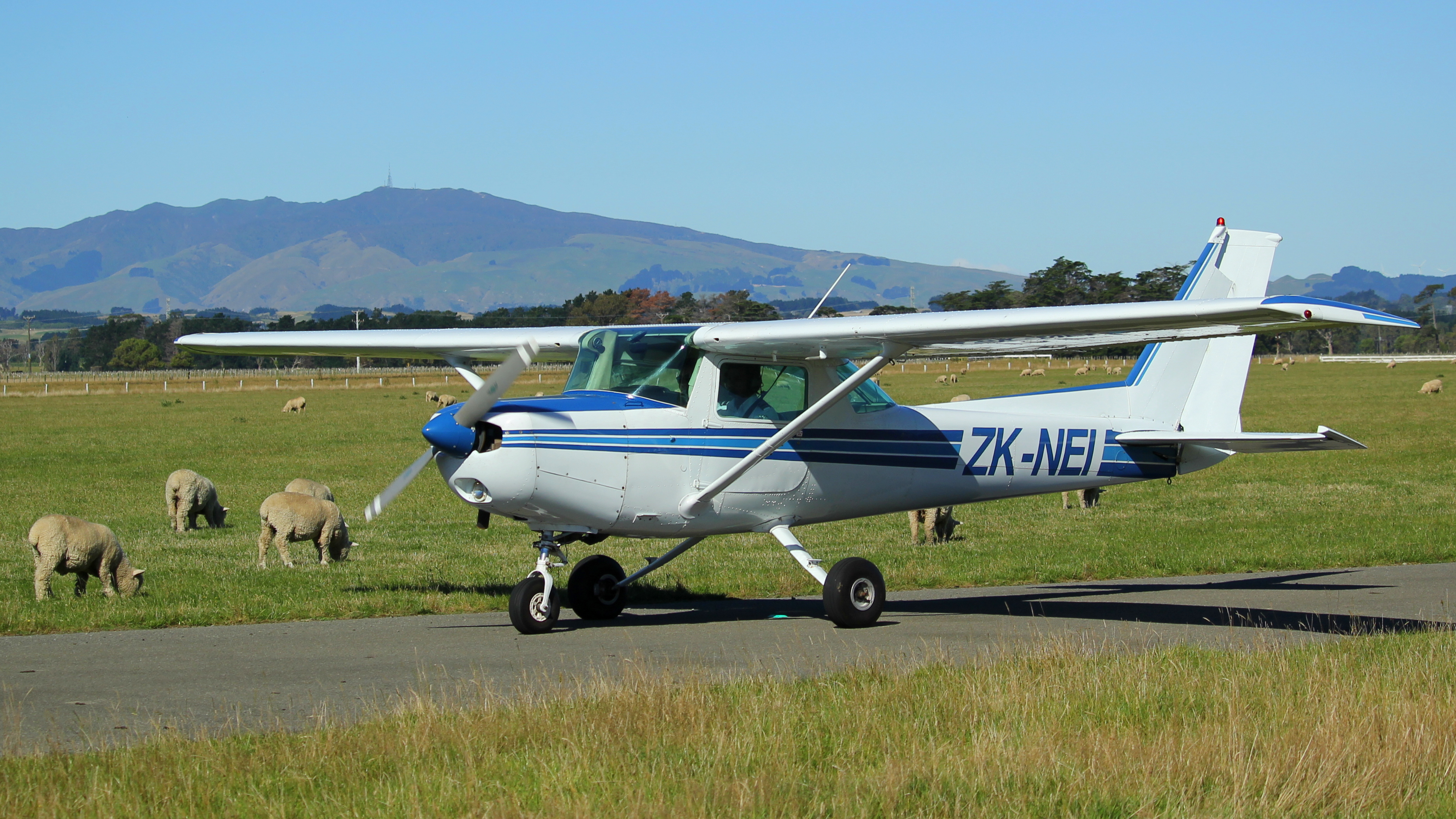 Cessna 152 (ZK-NEI) taxiing at Feilding Aerodrome with sheep grazing near the runway